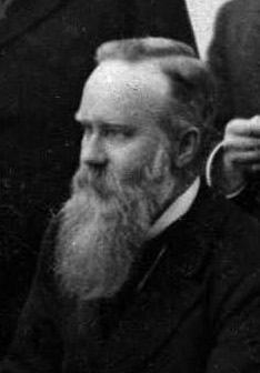 Group portrait of the members of the Special Diplomatic Delegation (Spesiale Gesantskap) of the Boer Republics of the Orange Free State and the South African Republic to Europe and America, 1900, l.t.r. front: A.D.W. Wolmarans (S.A.R.), A. Fischer (O.F.S.), C.H. Wessels (O.F.S.) and back: Dr. W.J. Leyds (Special Envoy and Minister Plenipotentiary of the S.A.R. in Belgium), Dr. H.P.N. Muller (Consul-General of the O.F.S. in The Netherlands and Special Envoy)